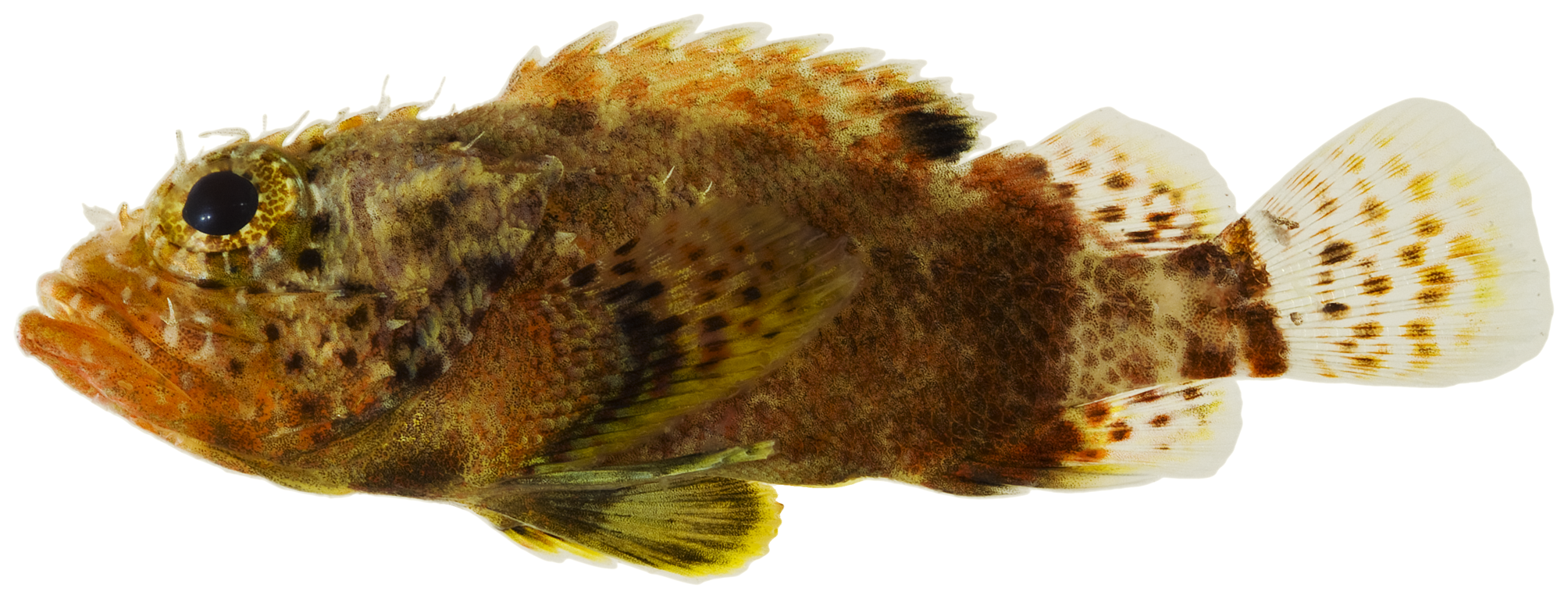 Scorpaenodes caribbaeus Meek & Hildebrand, 1928—reef scorpionfish, 30.1 mm SL. Photo by JT Williams.